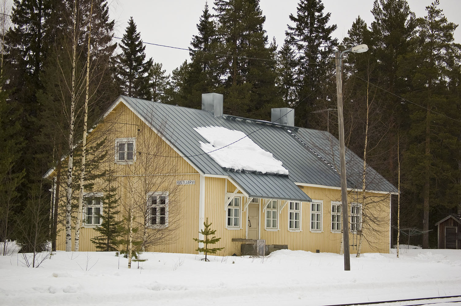 Ristijärvi railway station, Ristijärvi municipality, Finland.